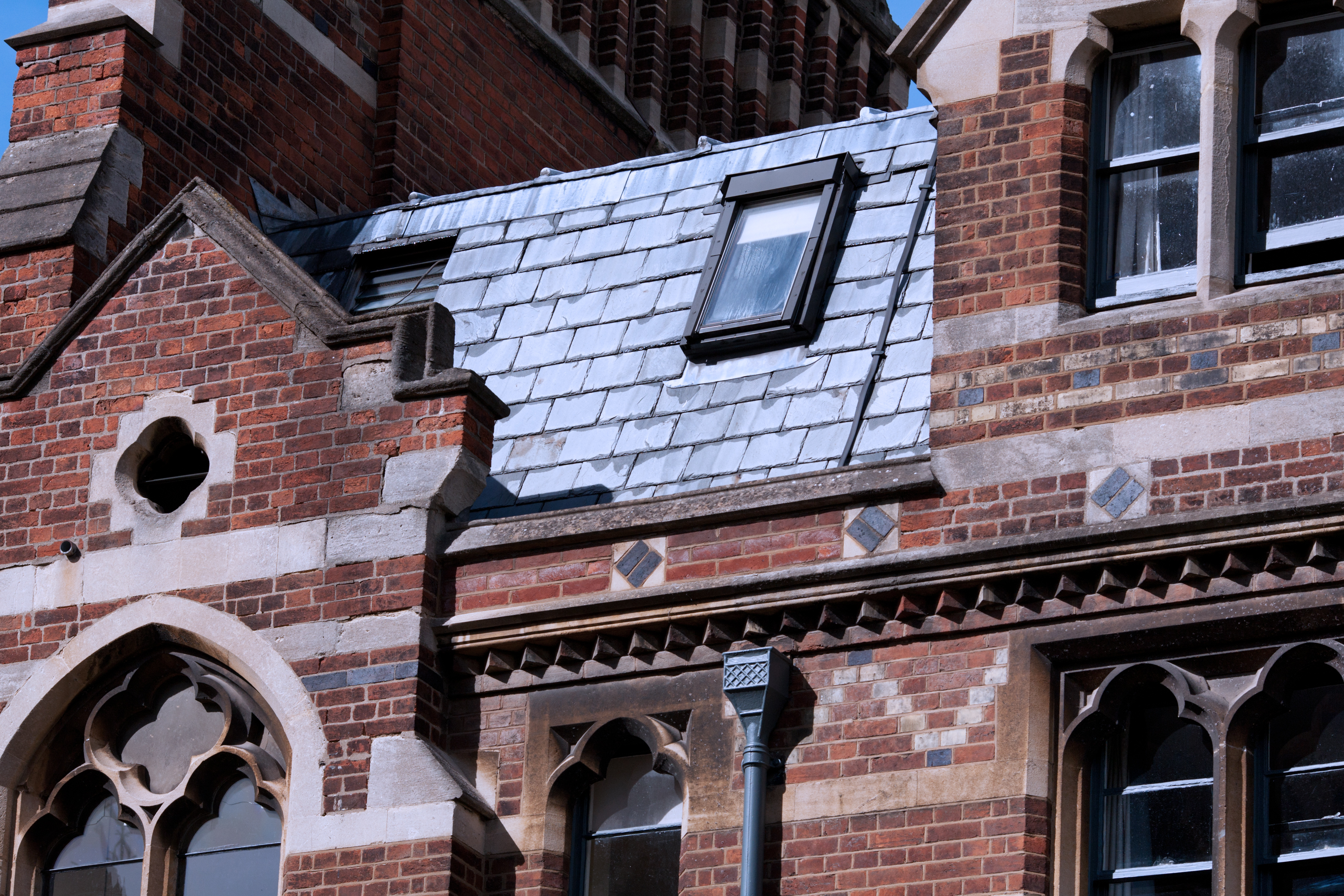 Keble College architectural details, Oxford, UK